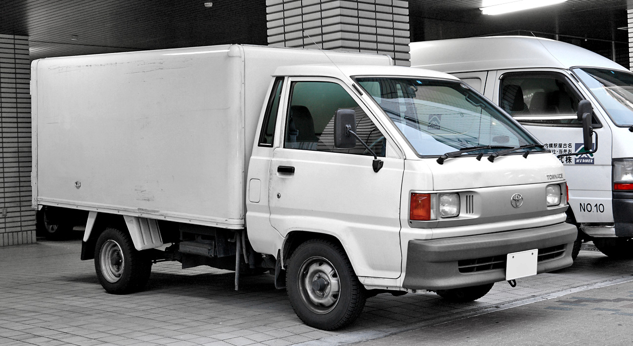 Toyota Townace Truuk